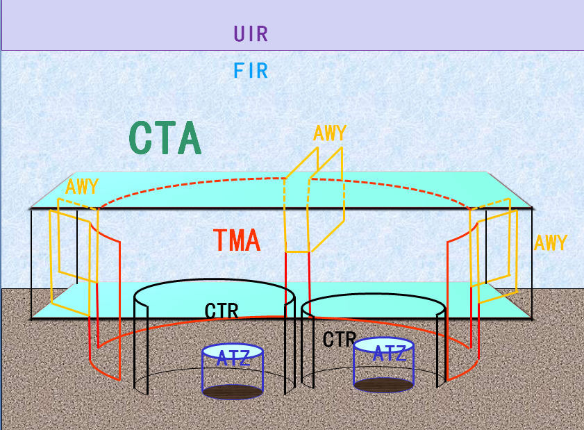 Airspace tipology